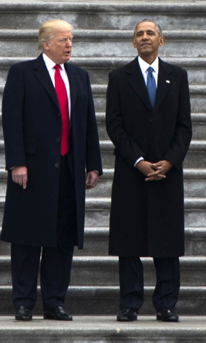 Donald Trump and Barack Obama on inauguration day at U.S Capitol